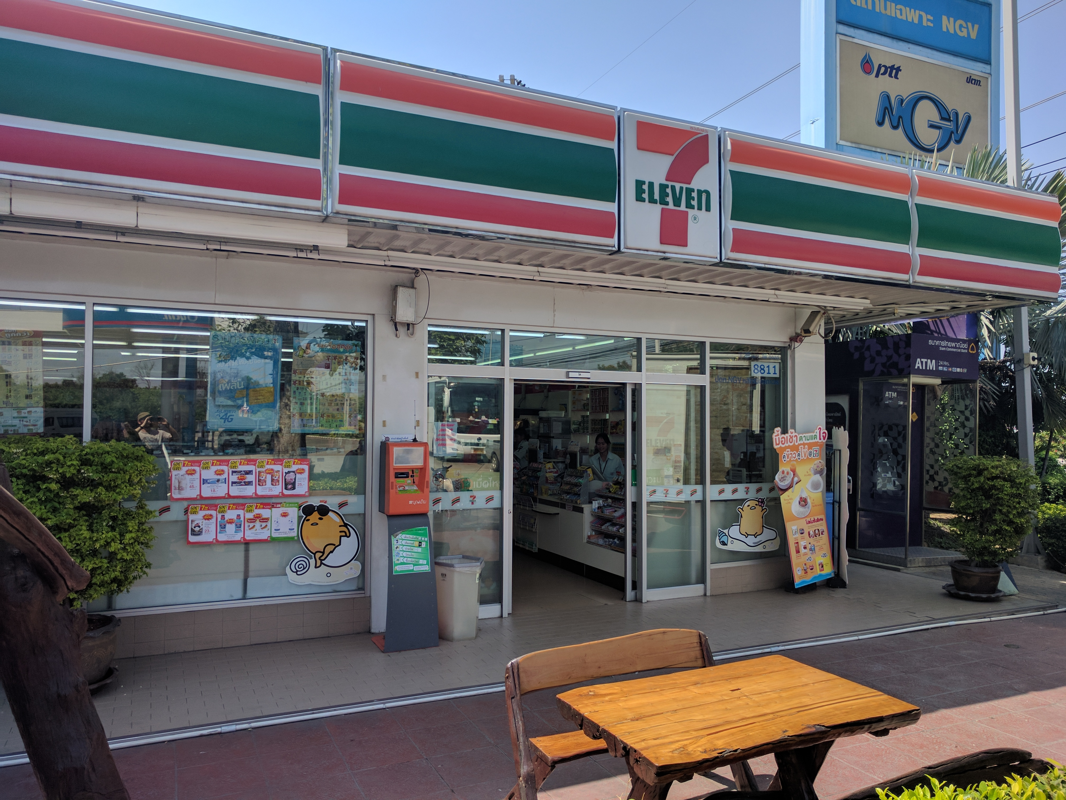 A 7-Eleven convenience store by the side of Route 340 south of Suphan Buri, Thailand.